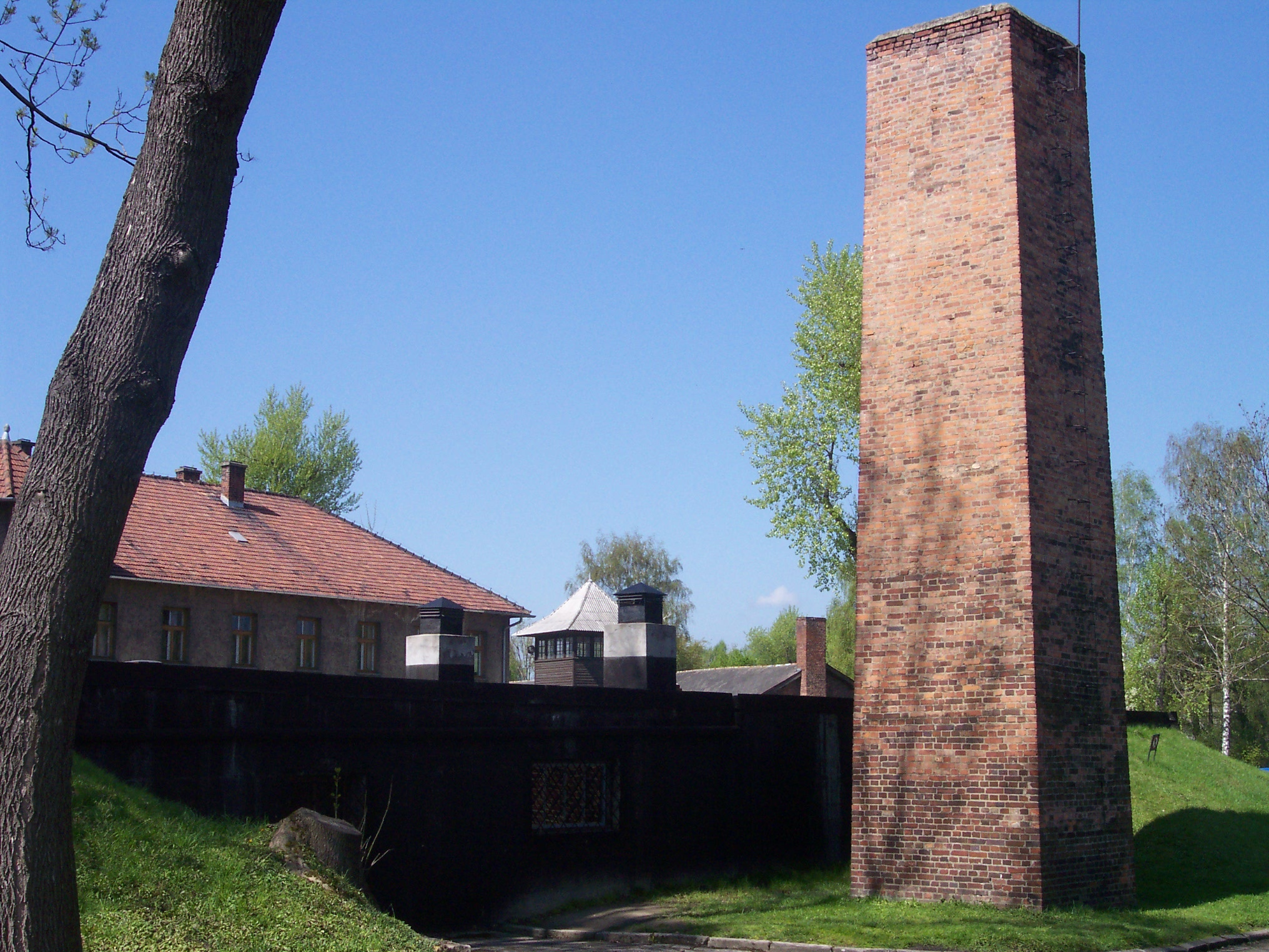 Crematorium of the concentration camp Auschwitz I